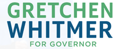 Gretchen Whitmer for Governor